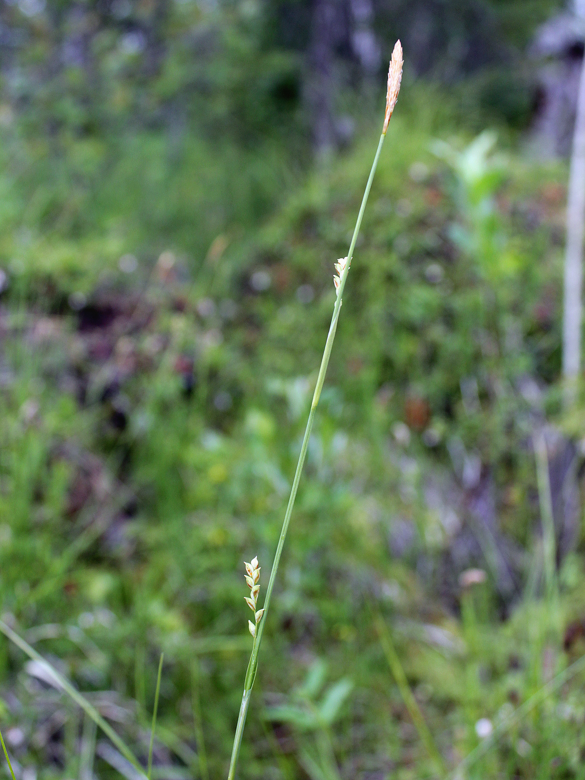 Cyperaceae, Carex vaginata